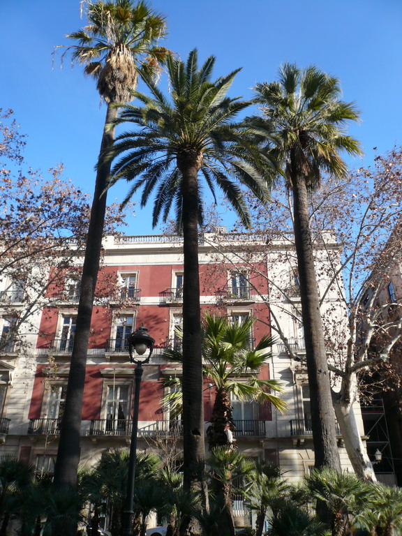 Washingtonia filifera (up left and right), Phoenix dactylifera (up center) and Trachycarpus fortunei (down) in Barcelona